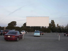 author peter berrett, 25 lockwoods rd boronia victoria Australia 3155, taken April 16 2006